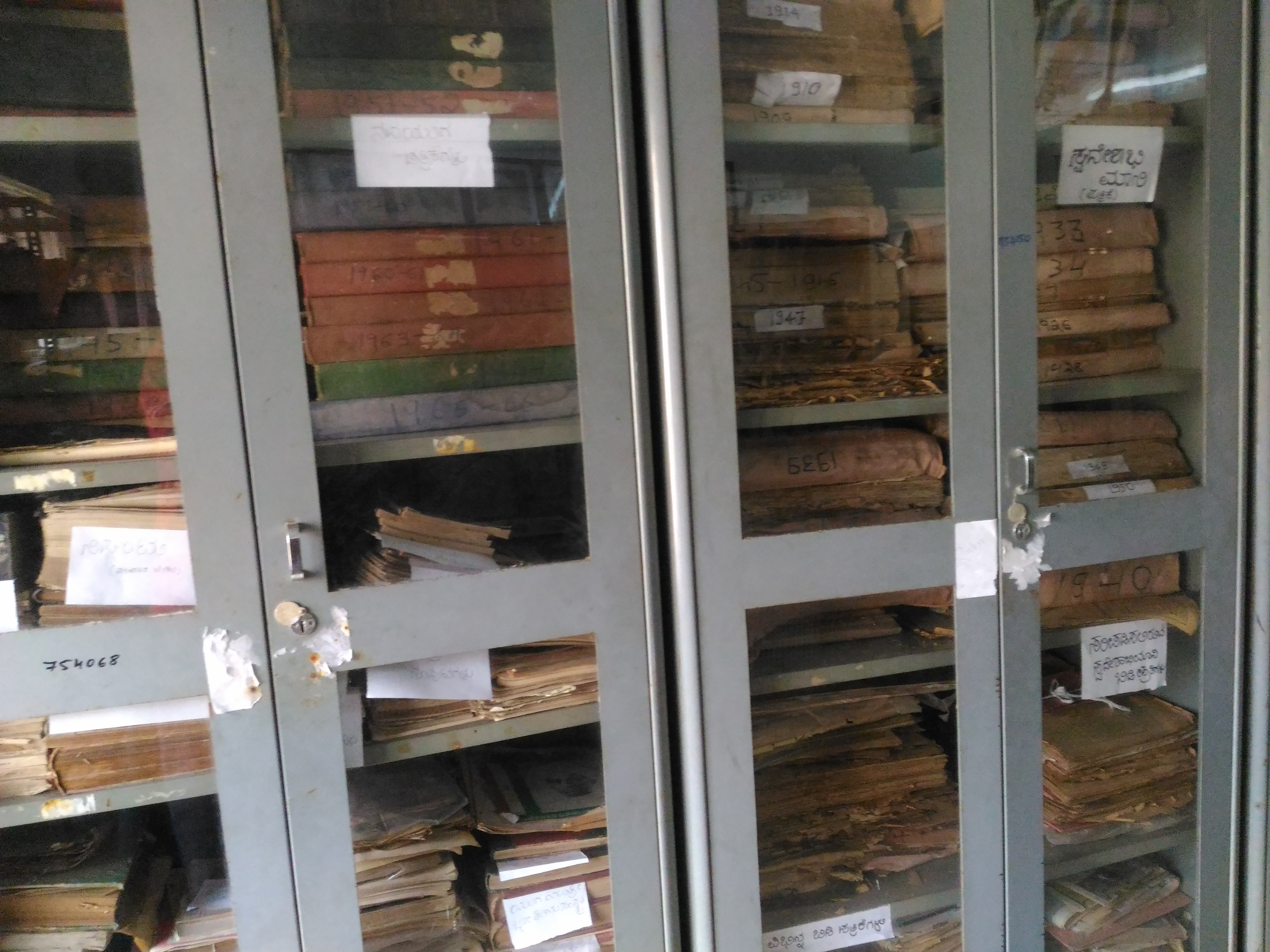 librariy